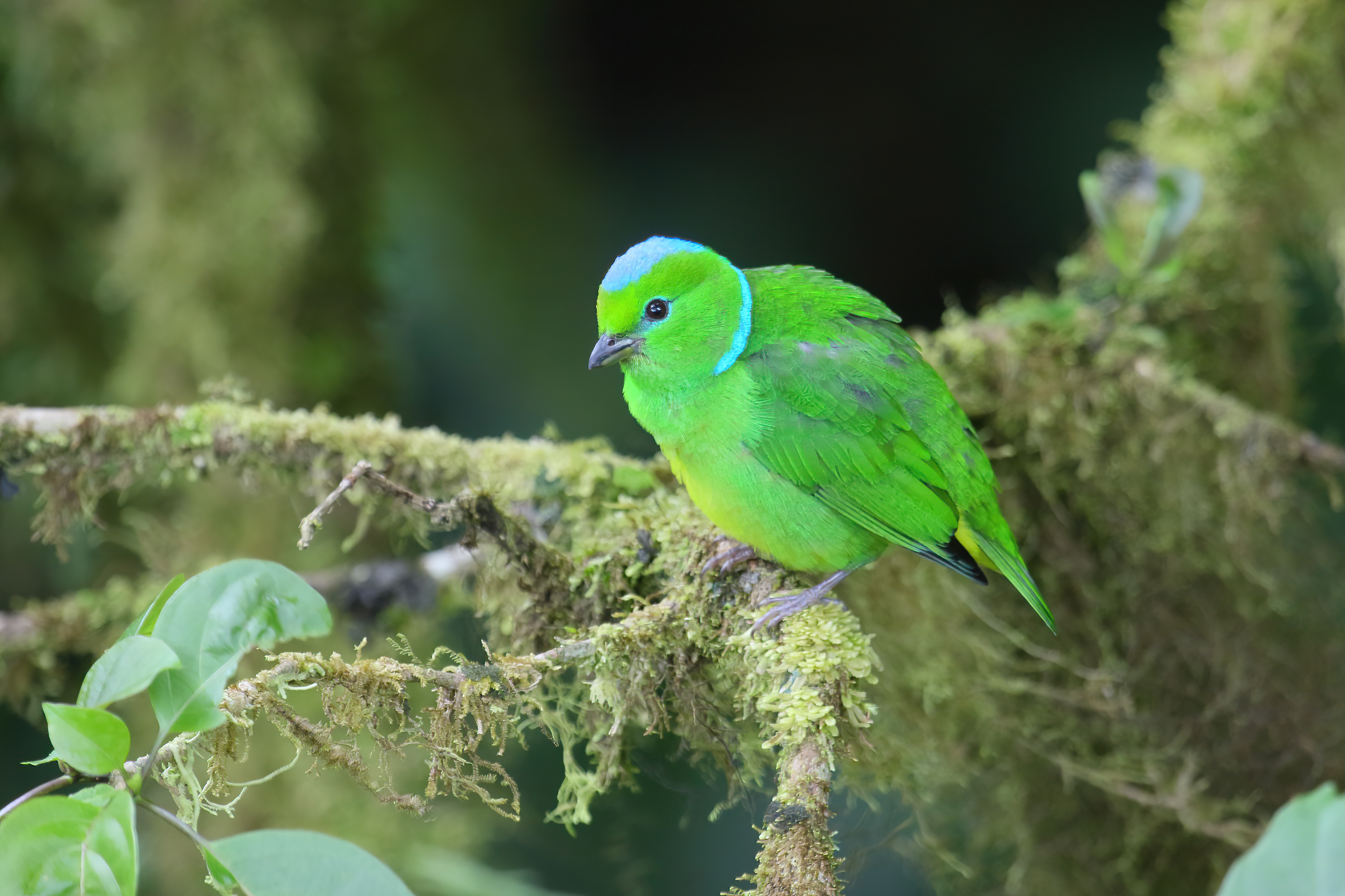 Golden-browed chlorophonia, Monteverde, Costa Rica